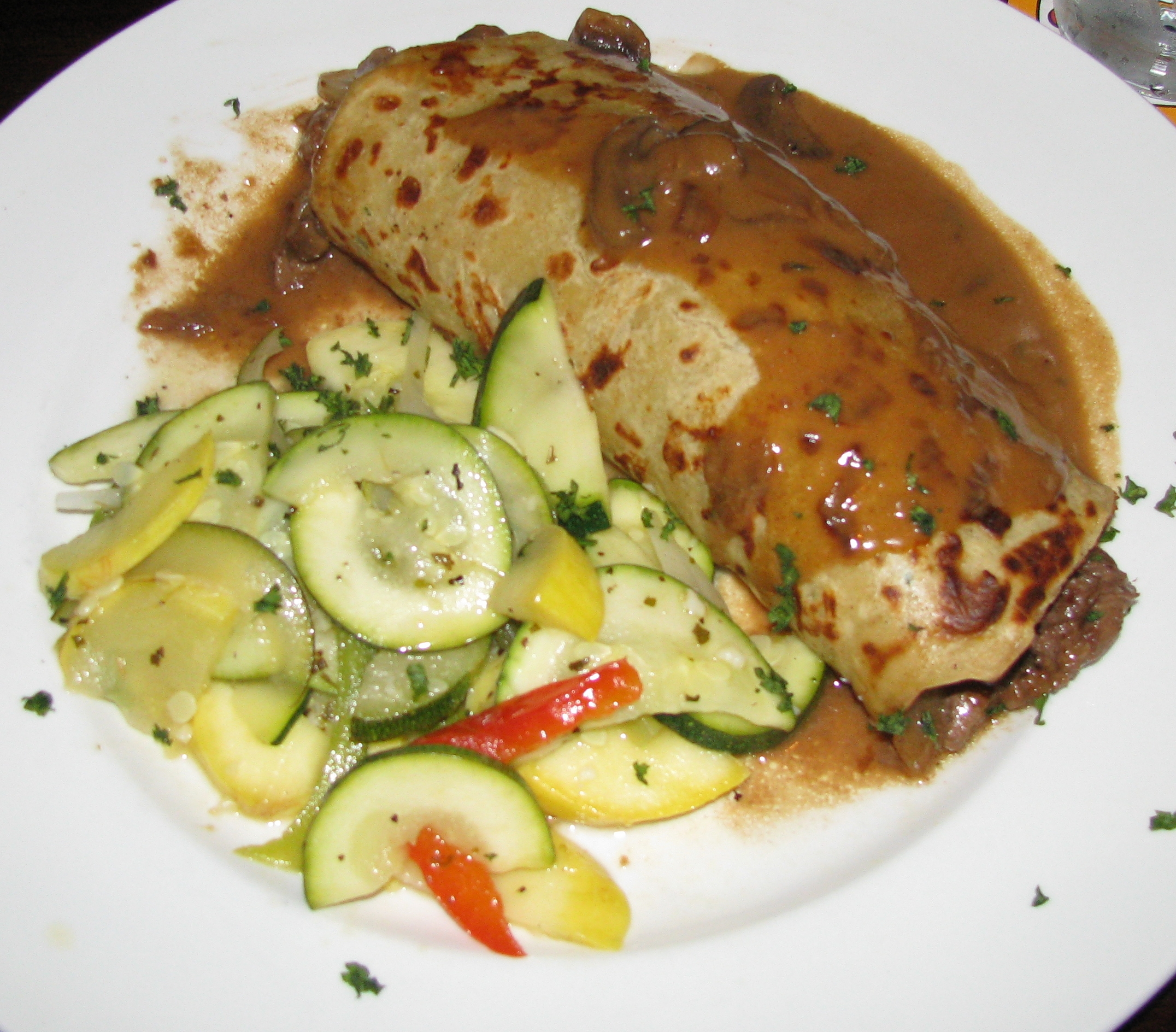 A photograph showing the traditional Irish dish boxty, prepared with beef and squash.